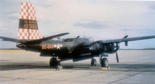 RB-26C Invader of the 363d Tac Recon Wing painted in black for night recon flights - Shaw AFB, SC